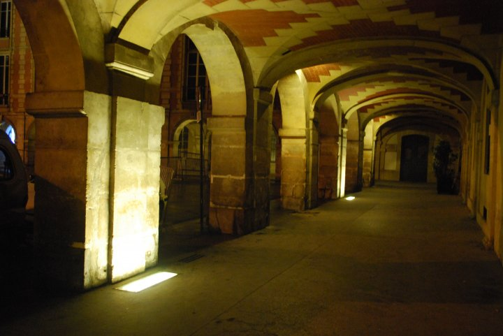 Archways Leading up to No. 6 (Victor Hugo's Old Residence) at the Place de Vosges